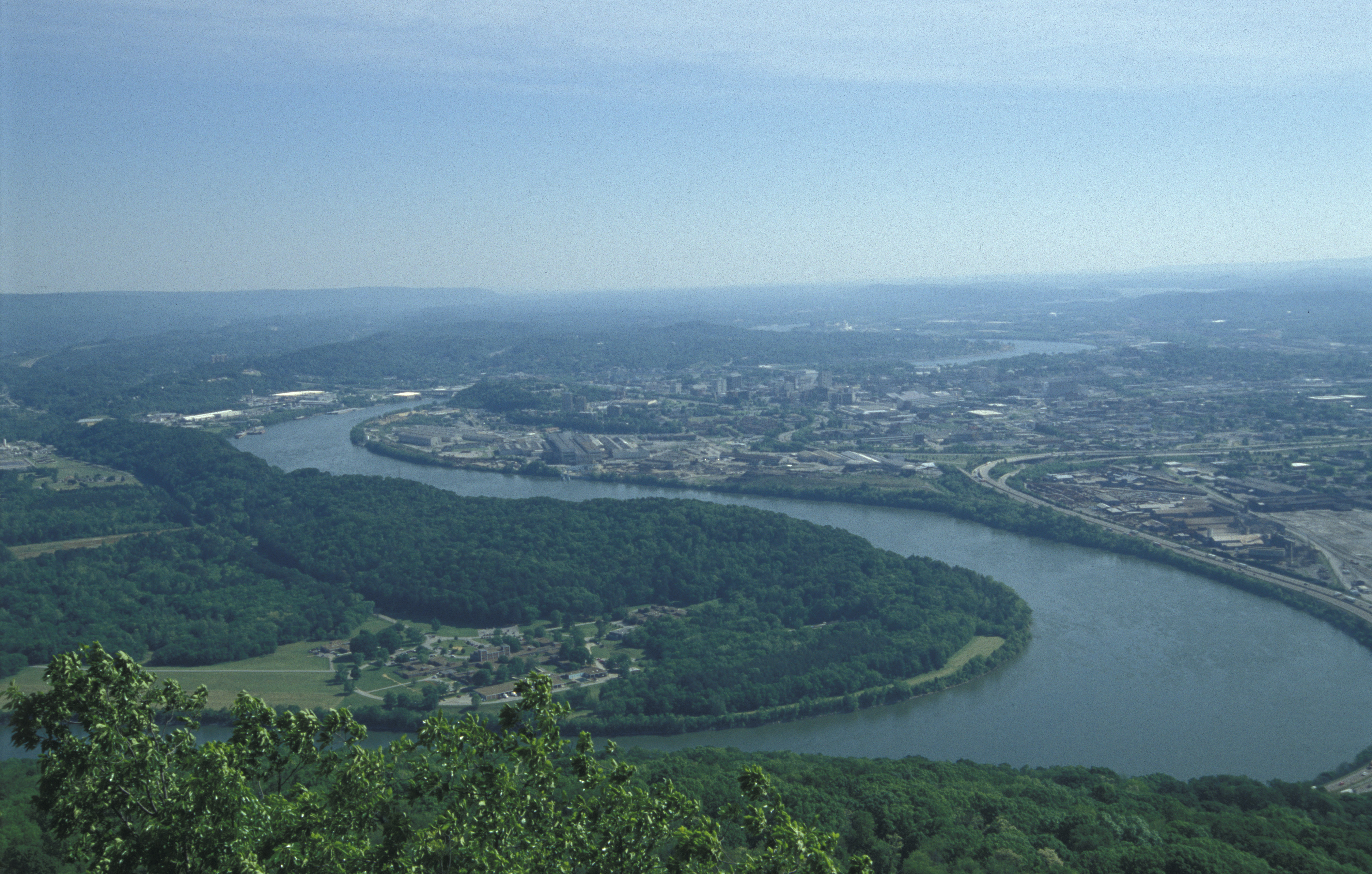 Chattanooga (city), Tennessee, USA, view from Lookout Mountain